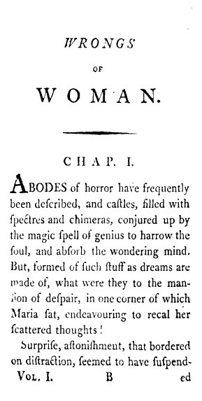 First page of The Wrongs of Woman from Wollstonecraft's Posthumous Works